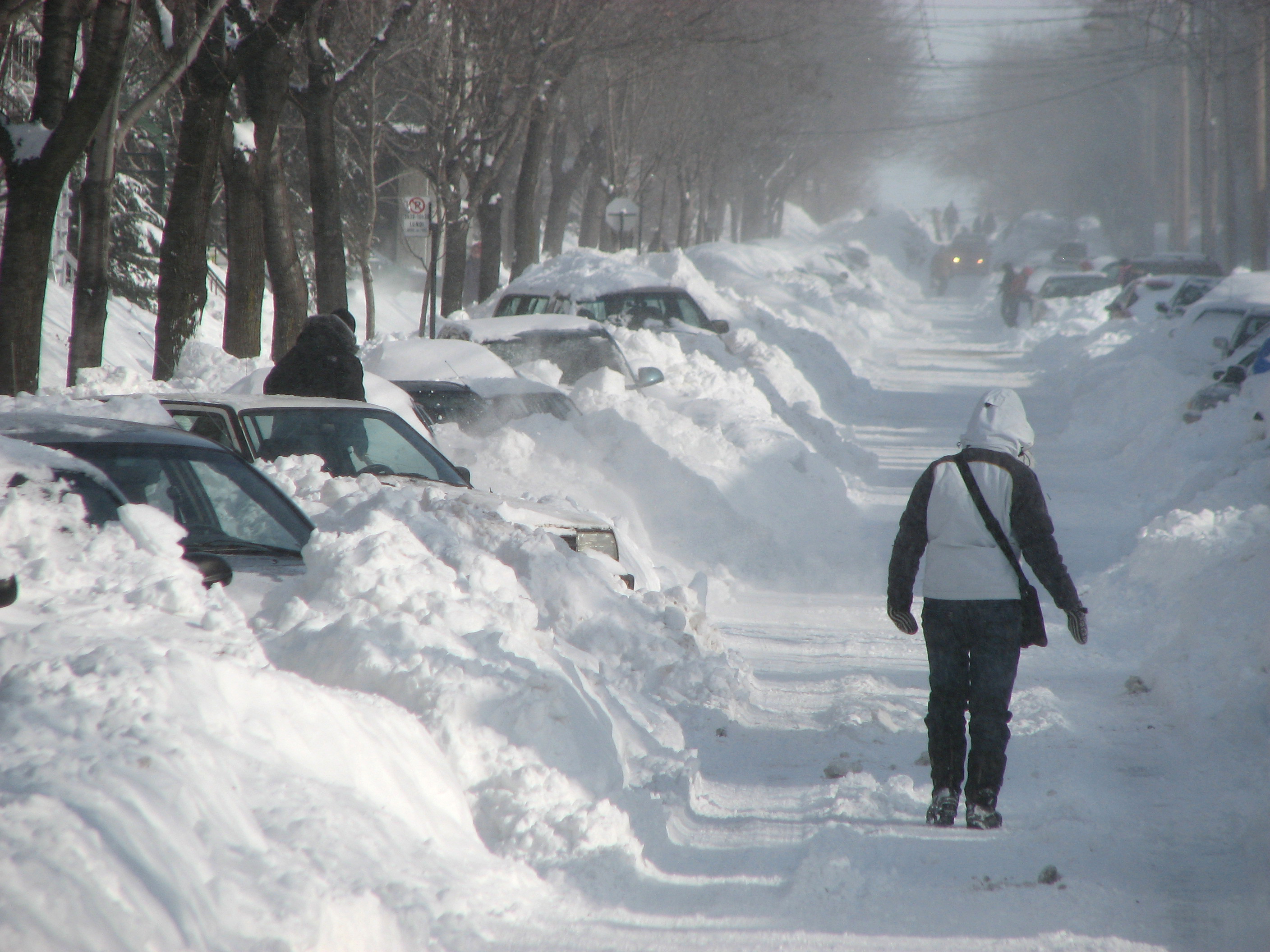 The day after a snowstorm in Montréal, rue de La Roche (Petite-Patrie)